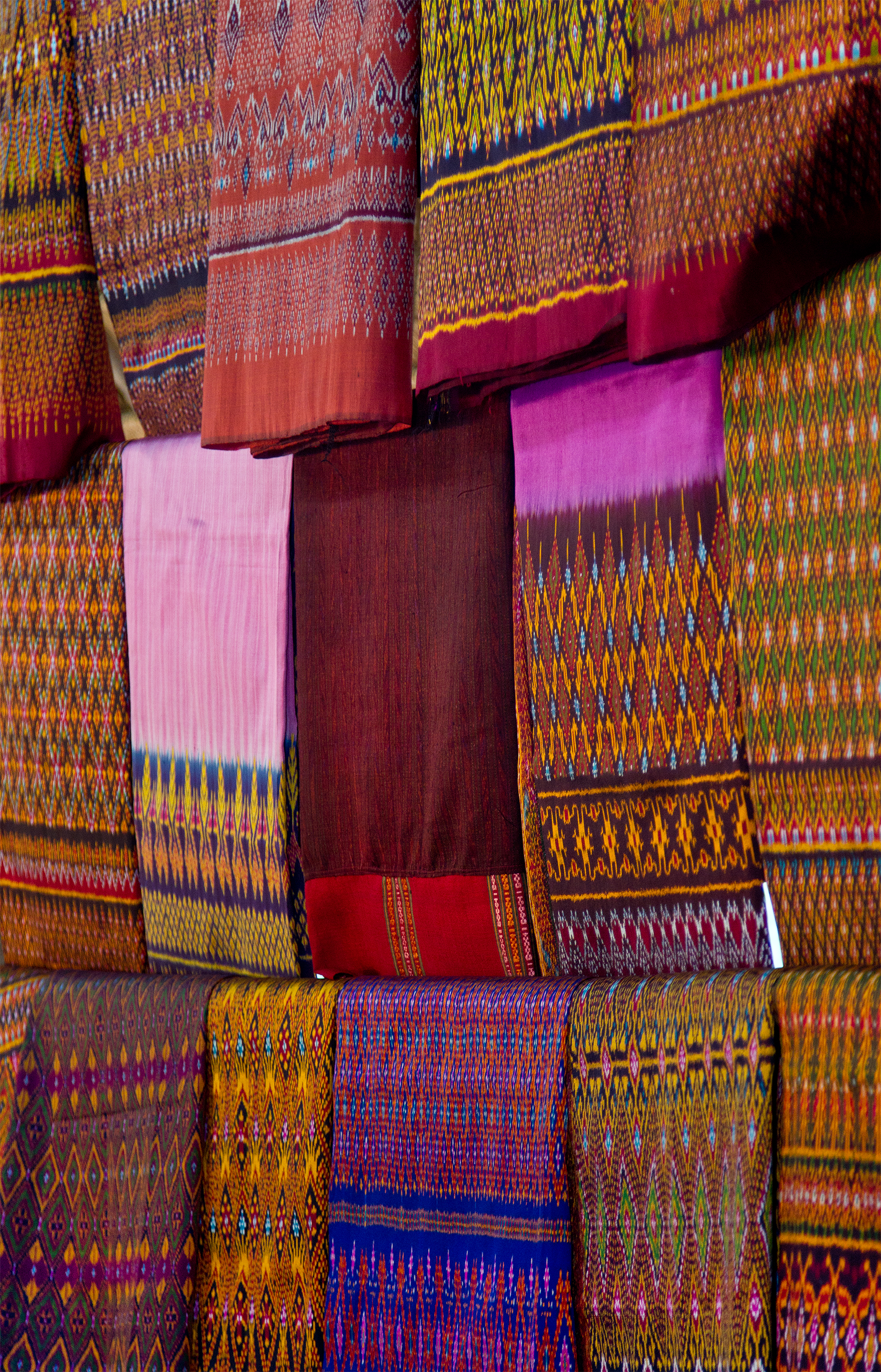 Handwoven, handmade silk cloth with natural dyes from Ban Tha Sawang, Surin Province, Thailand